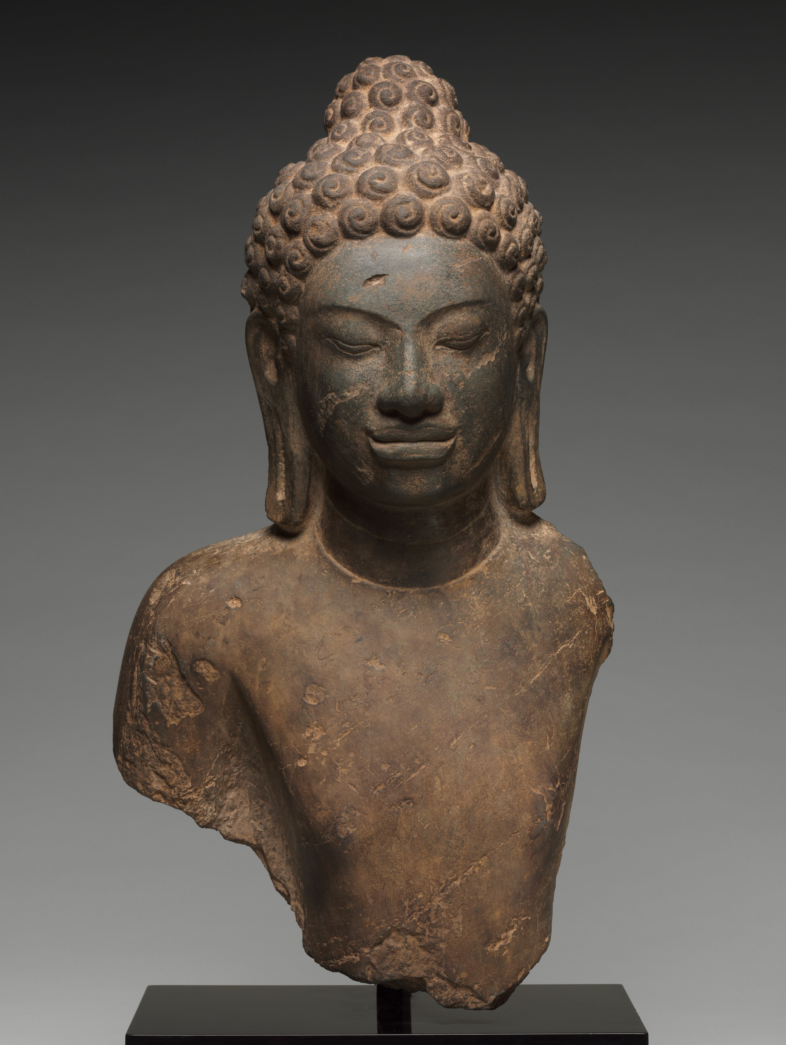 While the iconographic elements, such as elongated earlobes, cranial protuberance, and snail-shell curls derived from India, the local Mon people of Thailand gave their unique expression to the facial features of the Buddha. The beauty of sharply delineated eyes and stylized curling full lips was appreciated among the Mon, and these features impart an almost piercing serenity that is distinctive to Thai images from this early period of sculptural production in Southeast Asia.